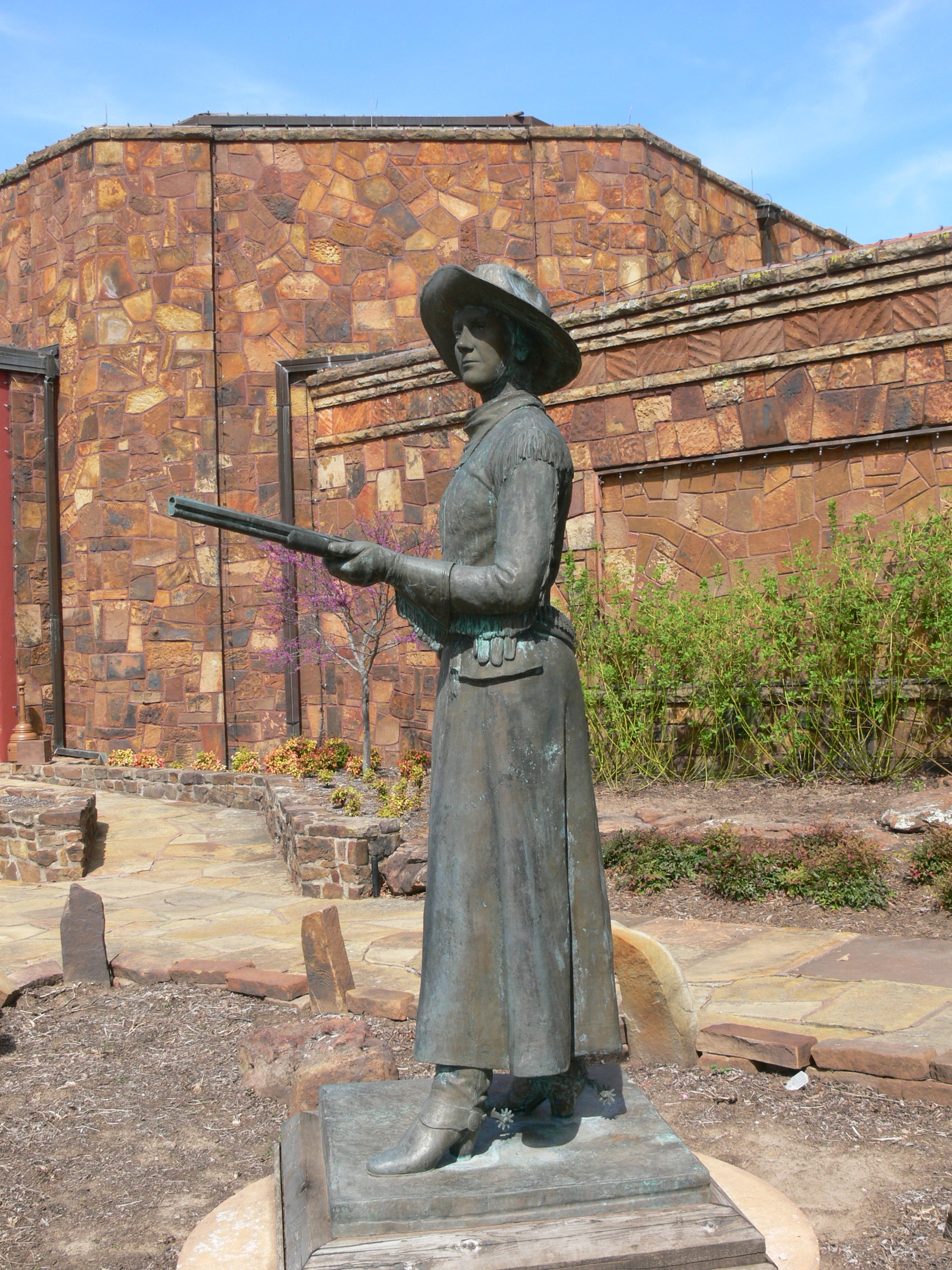 Woolaroc, Oklahoma. Statue of Belle Starr, a female American outlaw.